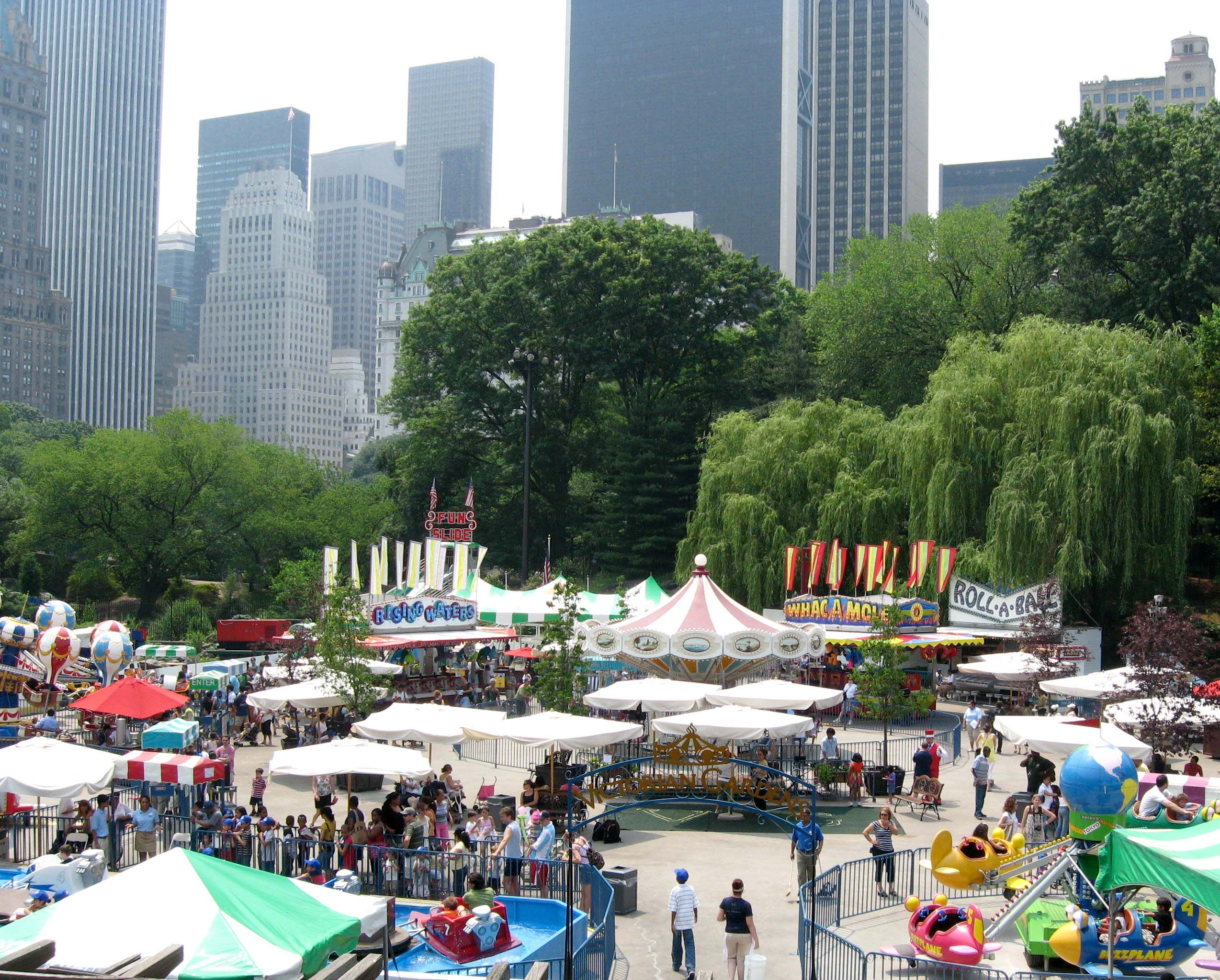 Looking south into Wollman Rink summer funfair on a sunny afternoon.